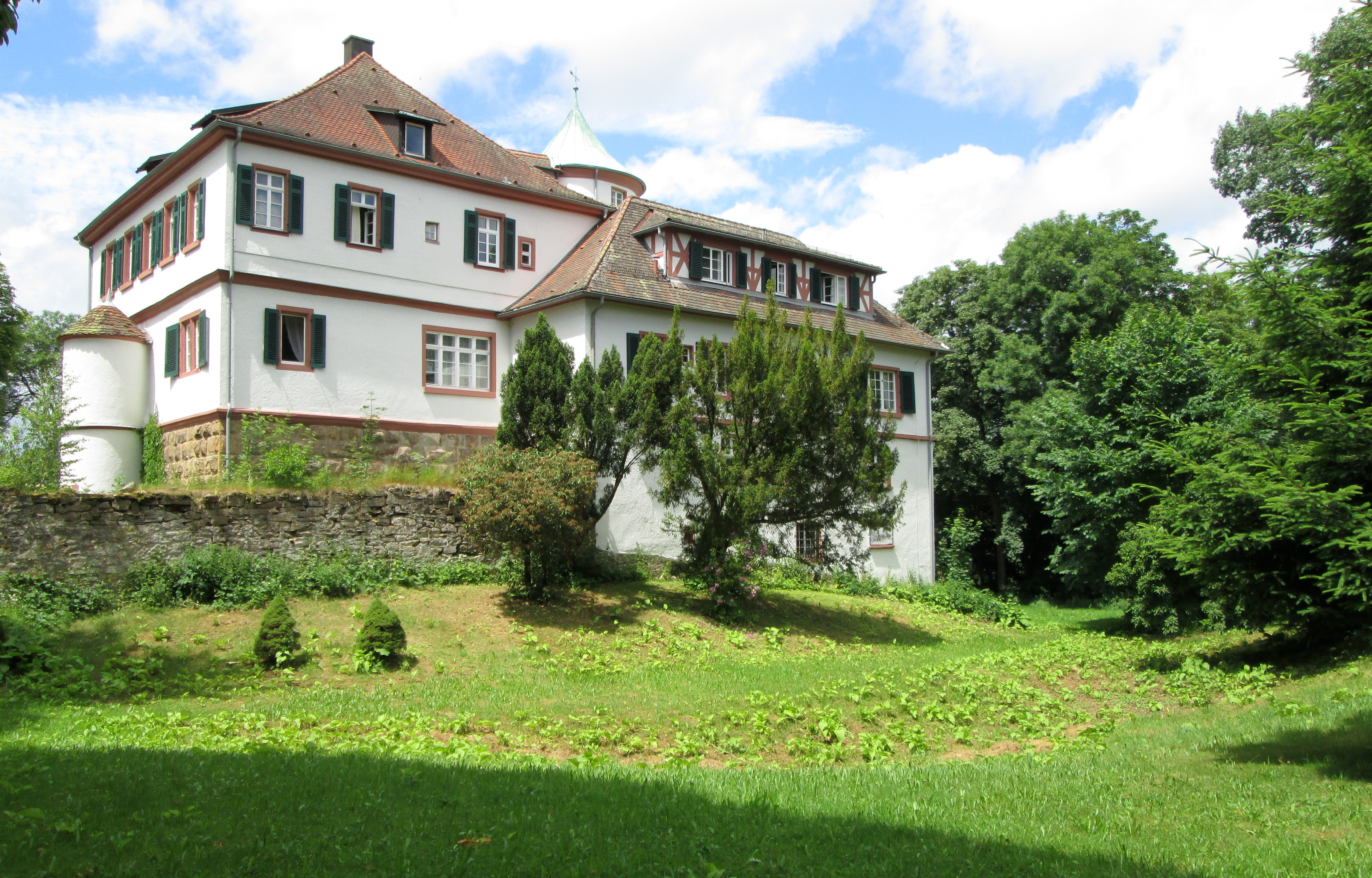 Lindach castle, Schwäbisch Gmünd, Germany, view from the east